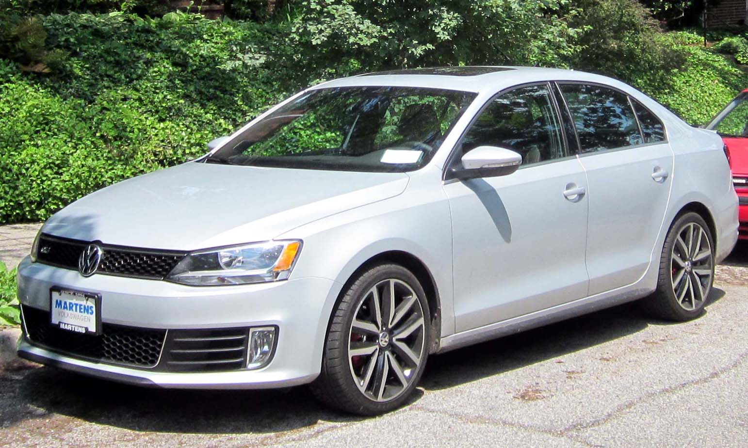 2012 Volkswagen Jetta GLI photographed in Washington, D.C., USA.